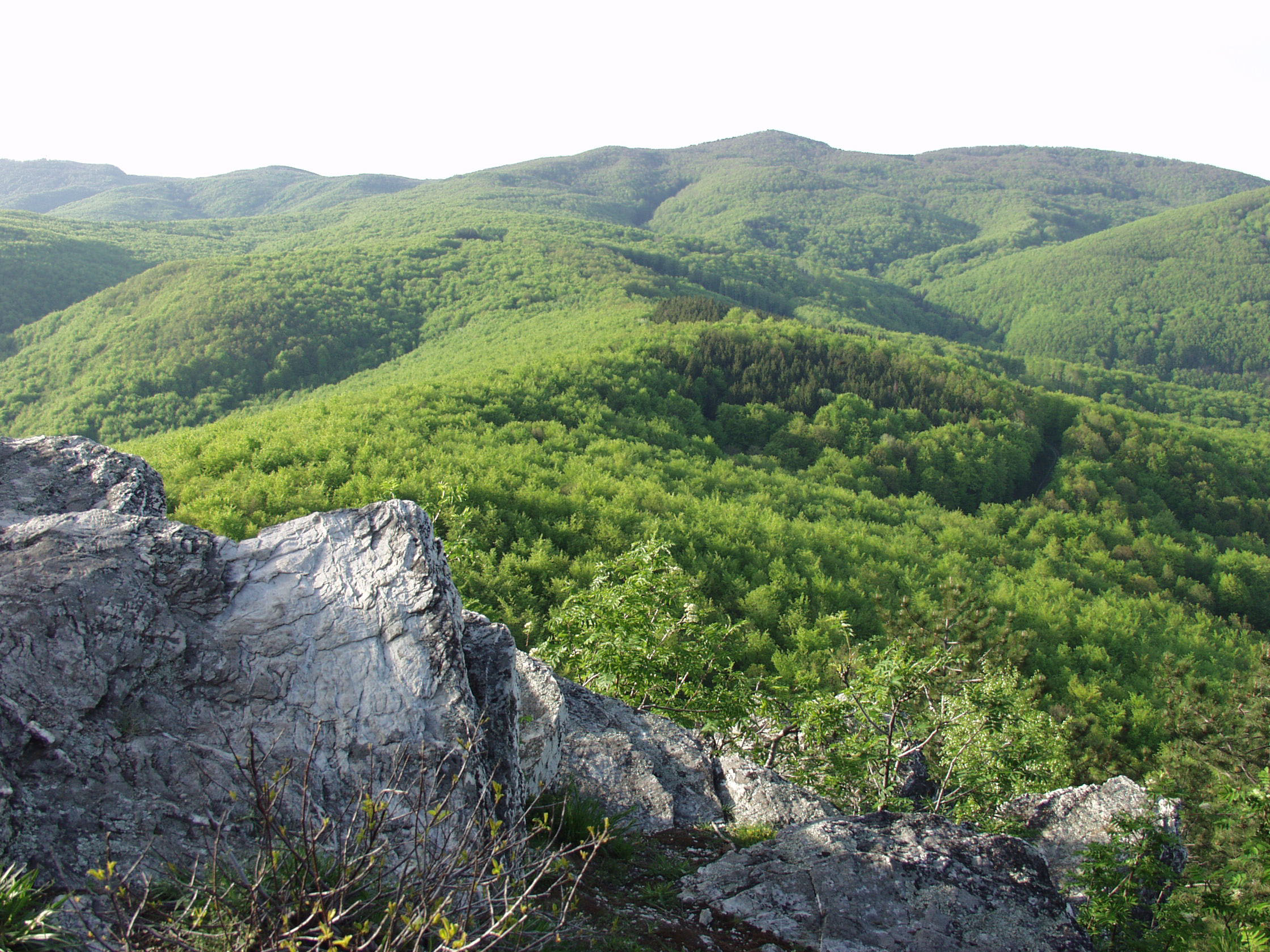 Papuk Mountain